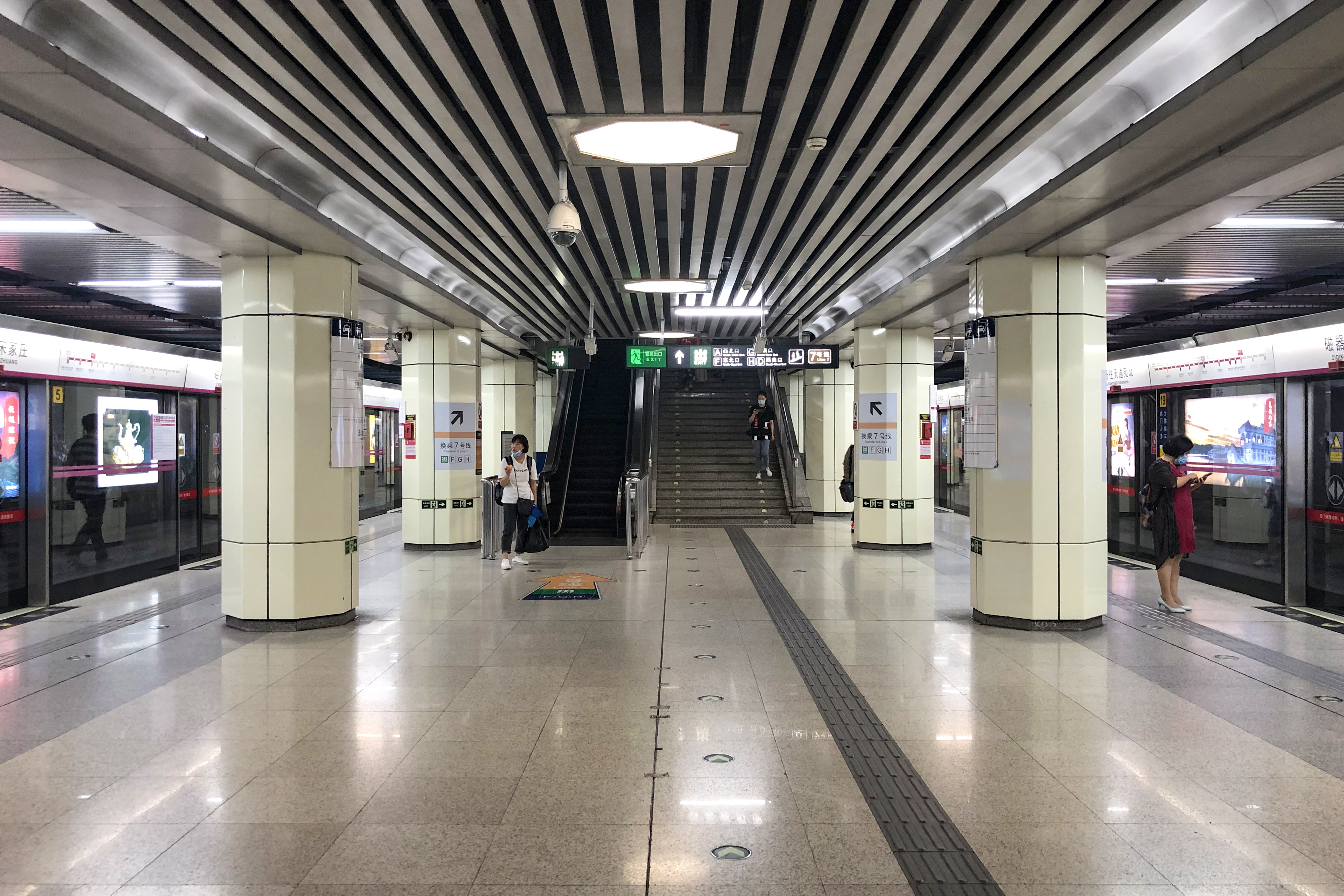 Nothing changed on Line 5...